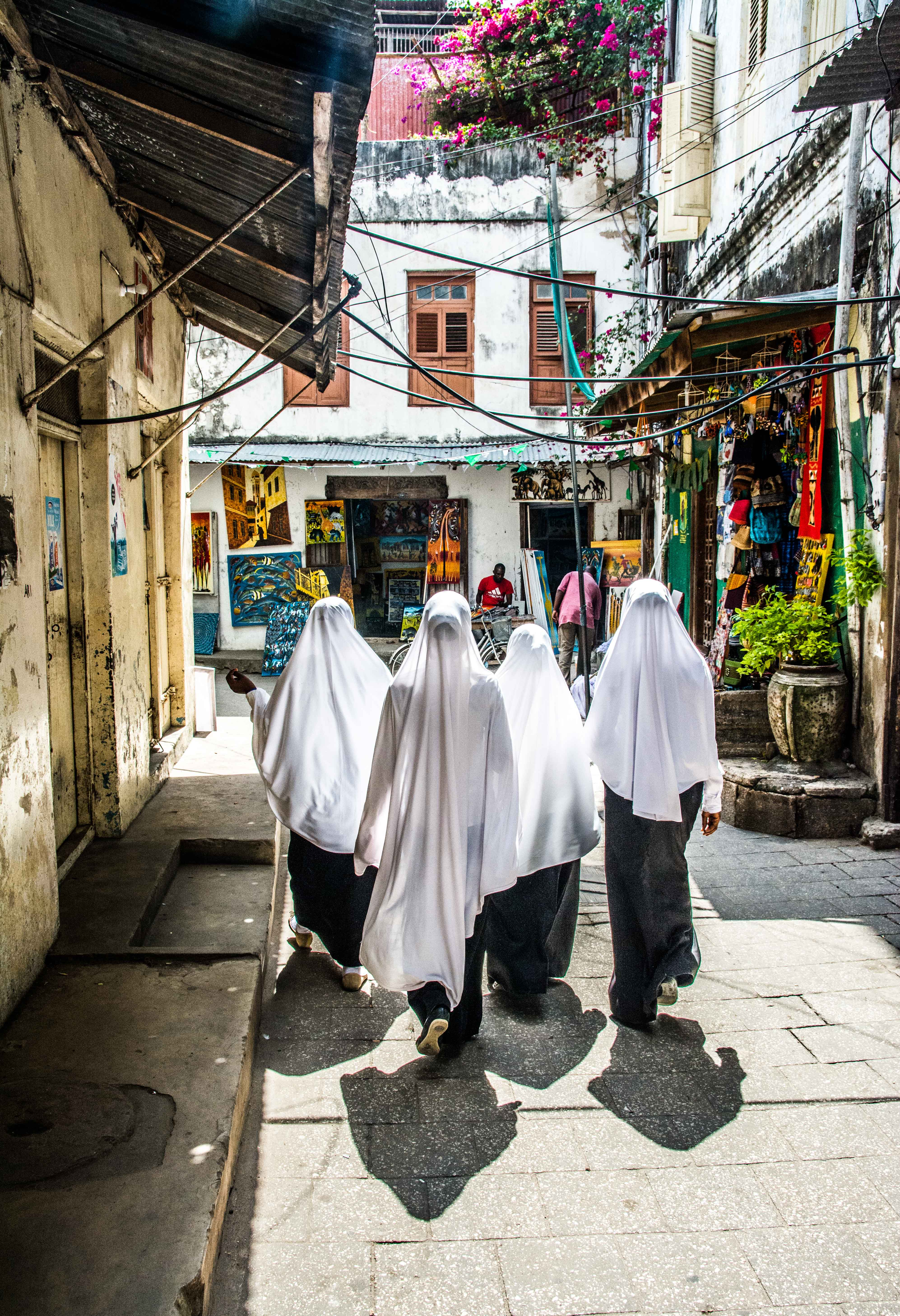 Schoolgirls in Zanzibar This is an image of Cultural Fashion or Adornment from Tanzania